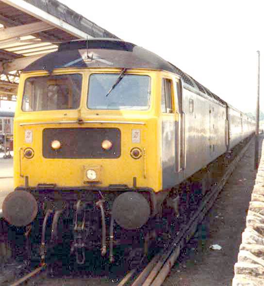 Former Class 48, No.47117, at Weymouth station with a holiday passenger train in 1989.